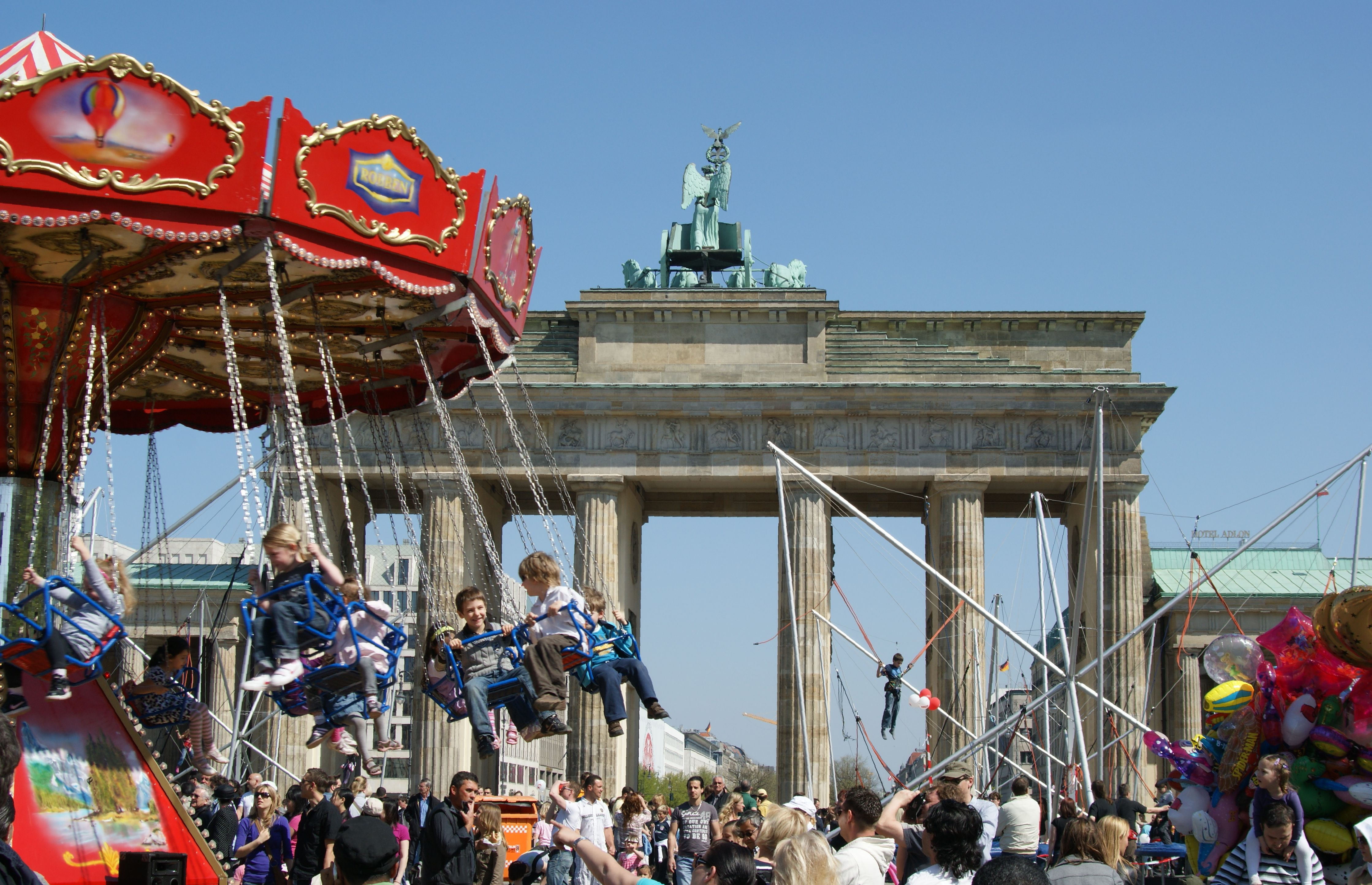 Kinderfestival 25. April 2010 - Children's festival - Berlin